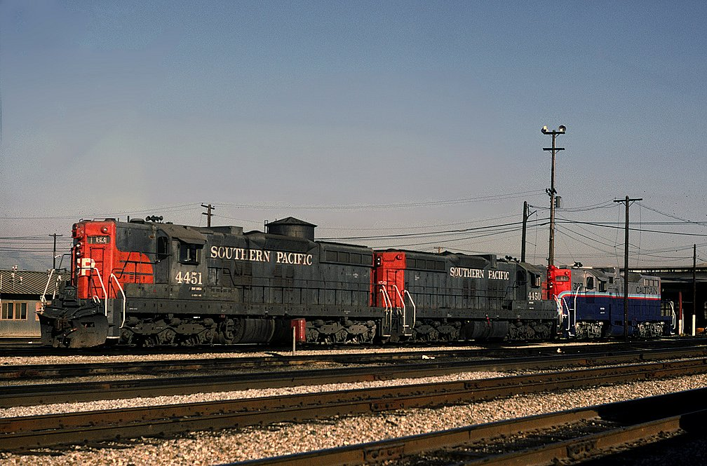 April 1985 at SP's Lenzen St engine facility in San Jose. SD9's 4450 and 4451 (aka "Huff and Puff") and GP 9 #3187 in the proposed original Cal Train paint scheme.